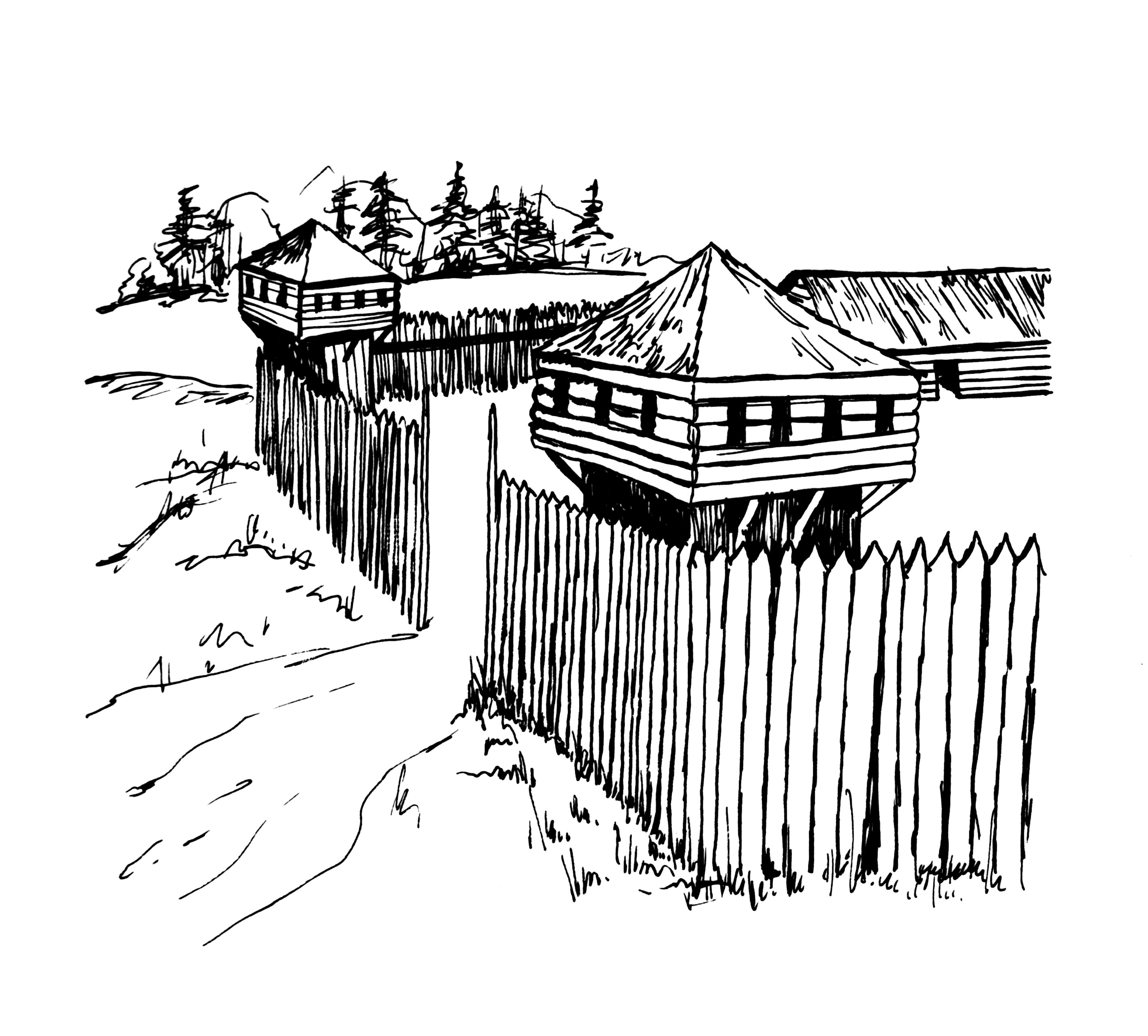 Line art drawing of a stockade